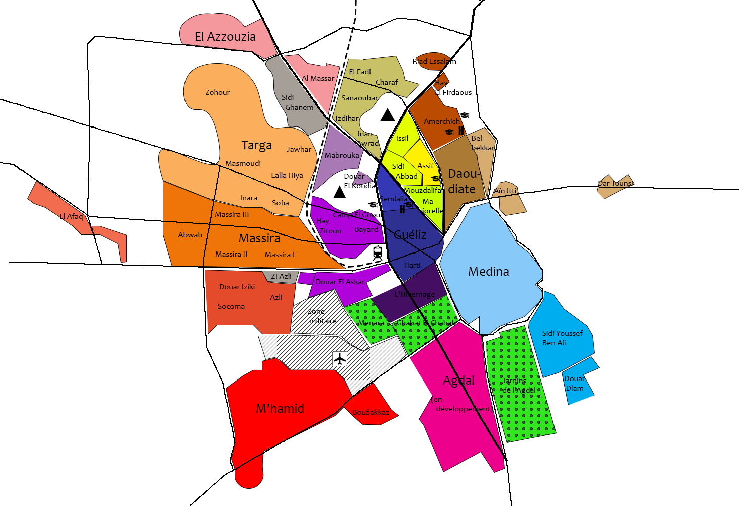 This map schematically represents the urban area of Marrakesh and its different districts (in 2020)